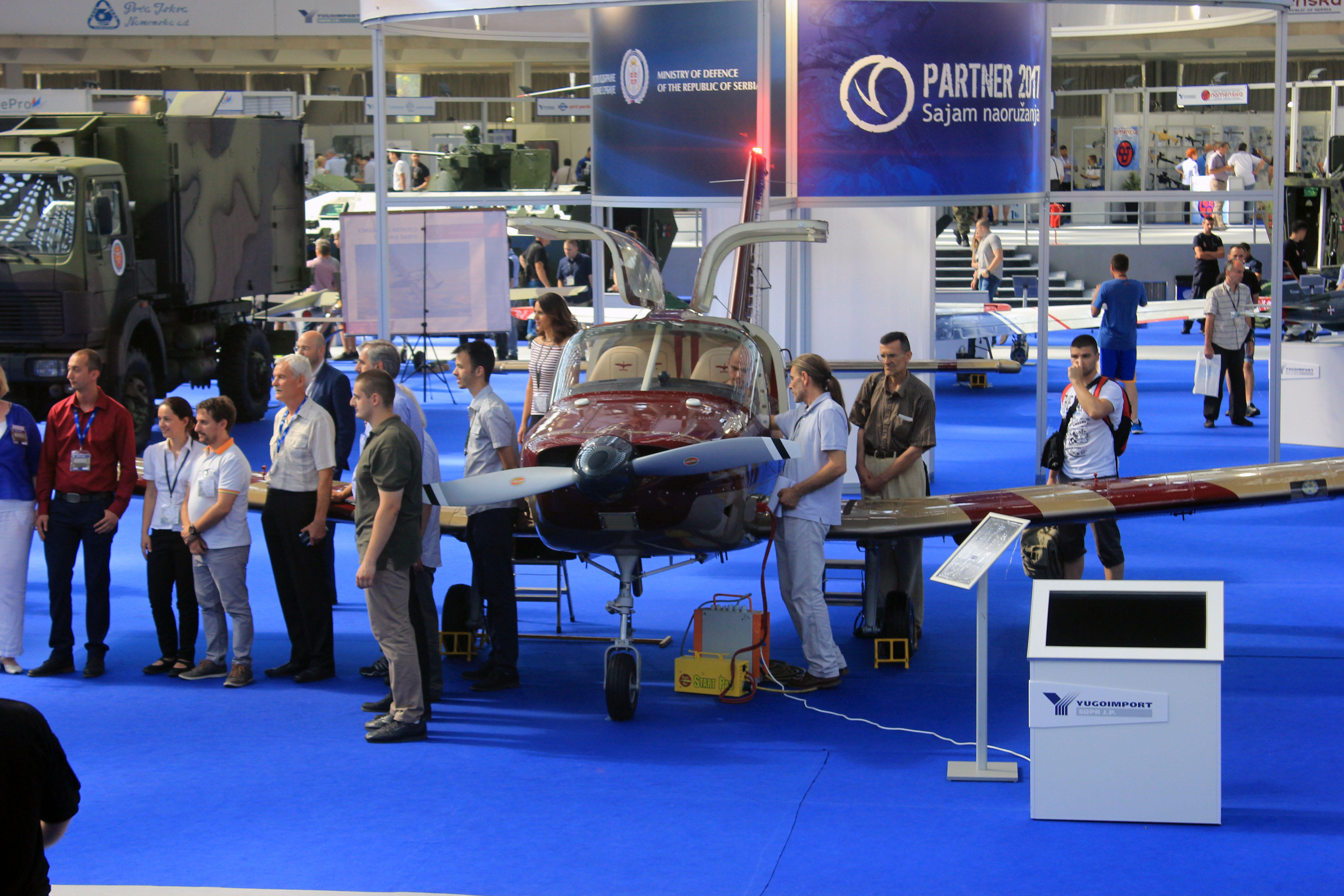 New aircraft from Utva, Sova aircraft on display at "Partner 2017" military fair.